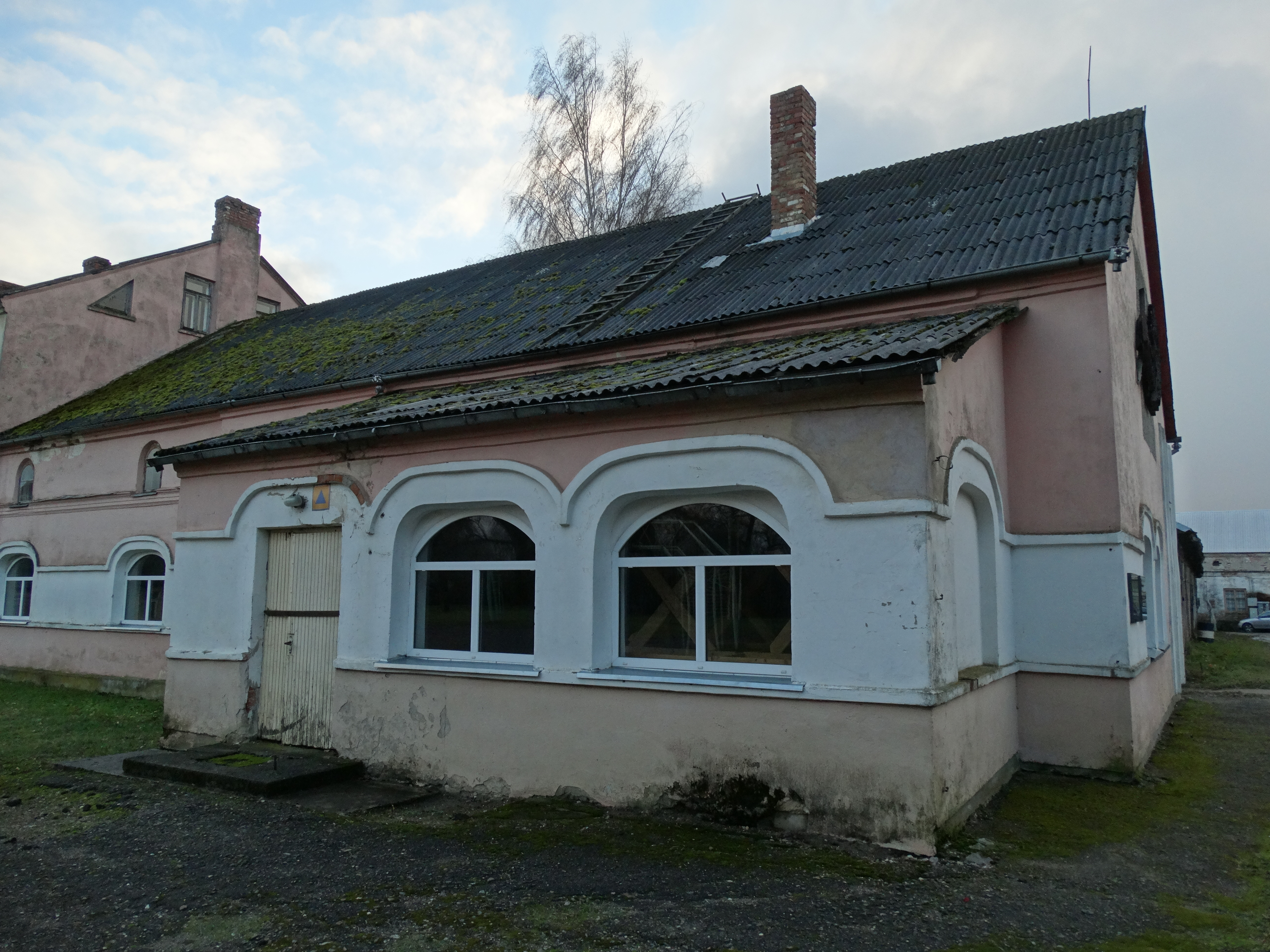 Salesian chapel in Vytėnai (Pilis I), Jurbarkas district, Lithuania